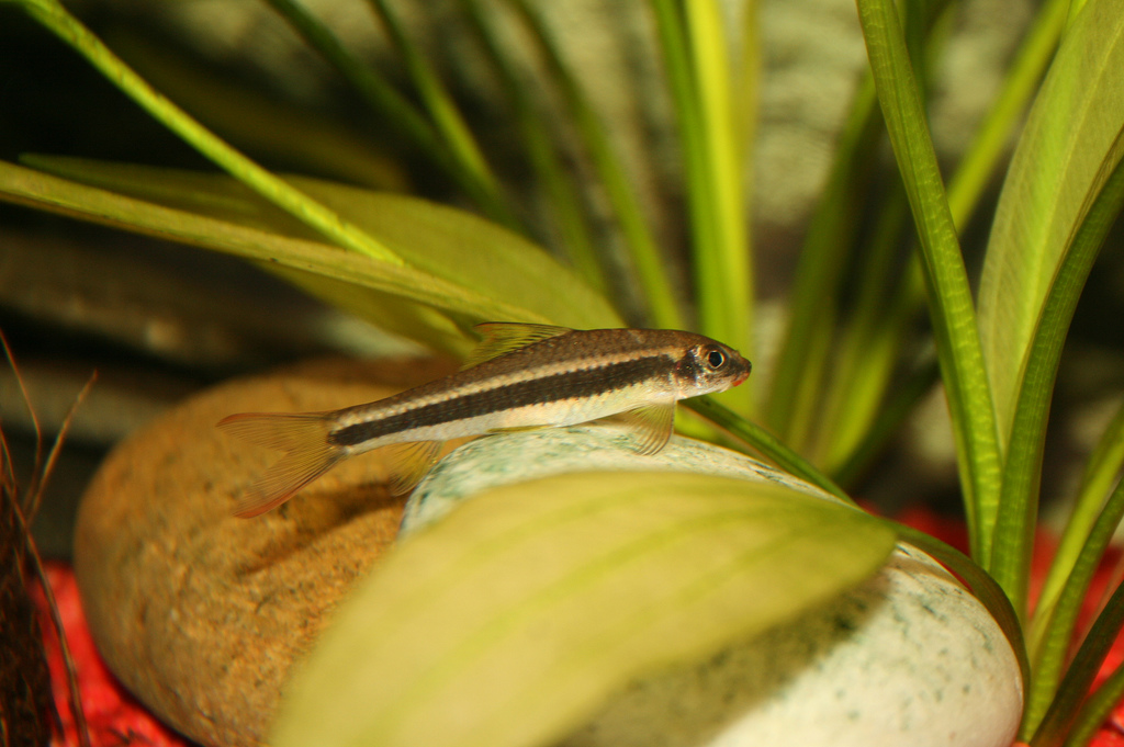 Flying fox Garra cambodgiensis alias Garra taeniata It is certainly not Epalzeorhynchos kalopterus. --147.251.80.93 15:14, 10 April 2013 (UTC)